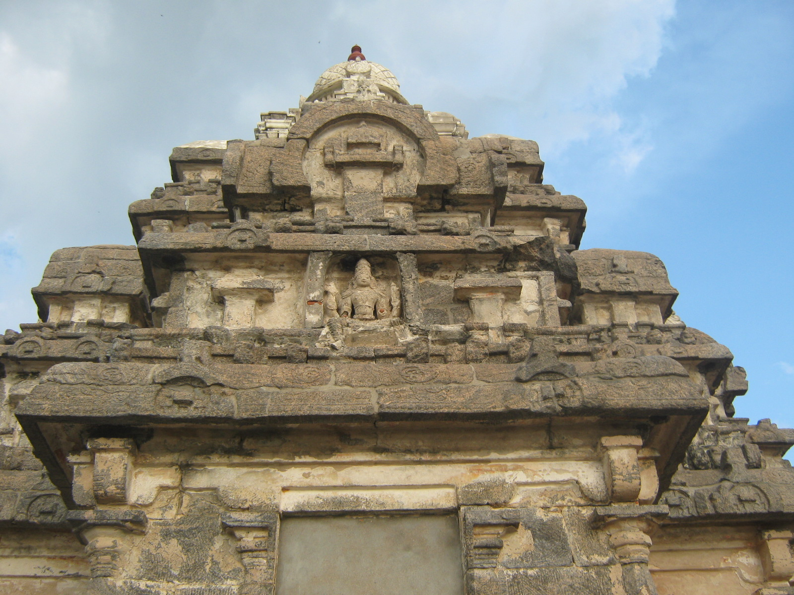 Panamalai Talagiriswarar Temple Vimana